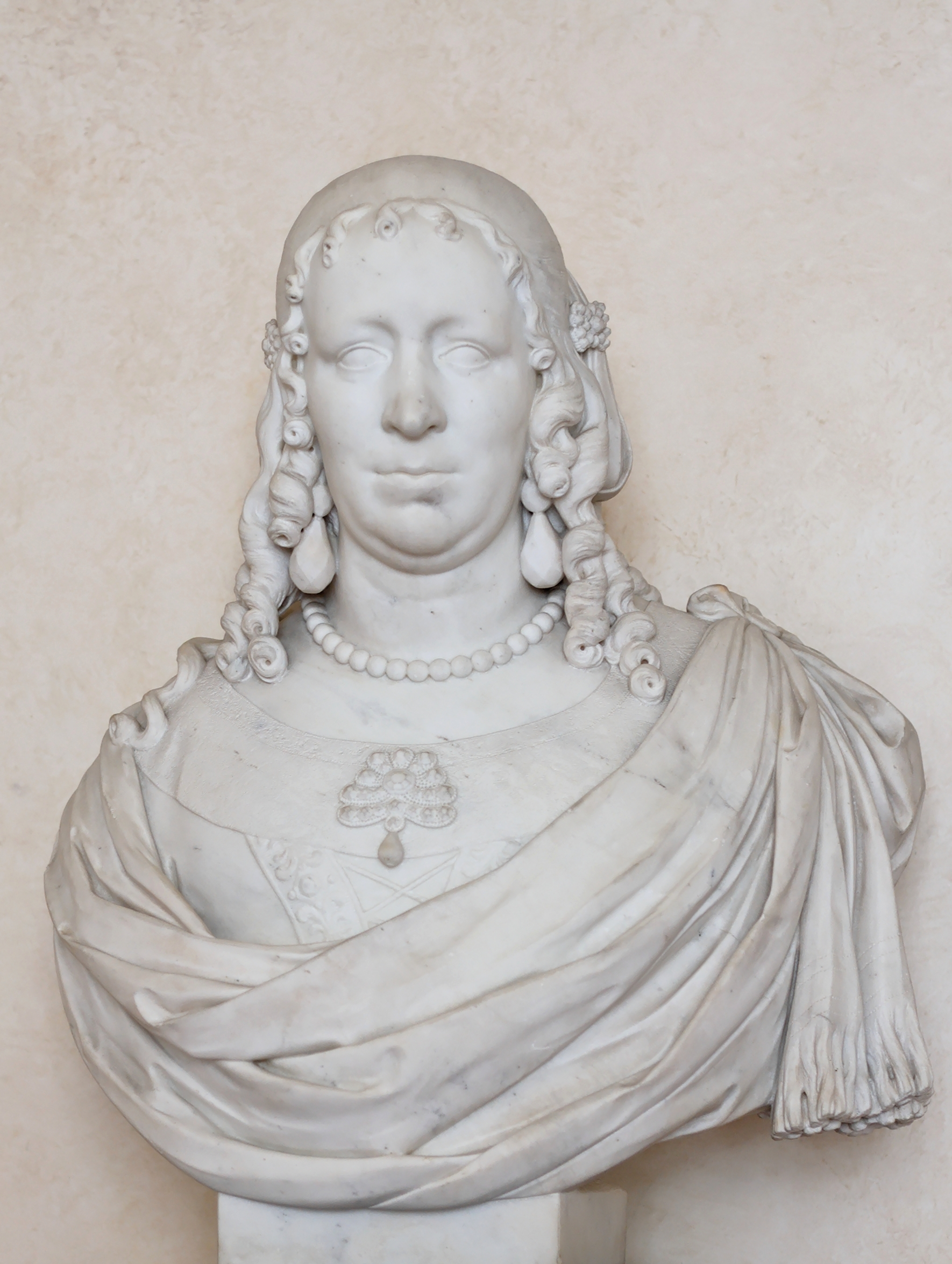 Portrait of Catharina Graeff Opsy (b. 1619), wife of Cornelis Witsen (1606–1665), burgomaster of Amsterdam.